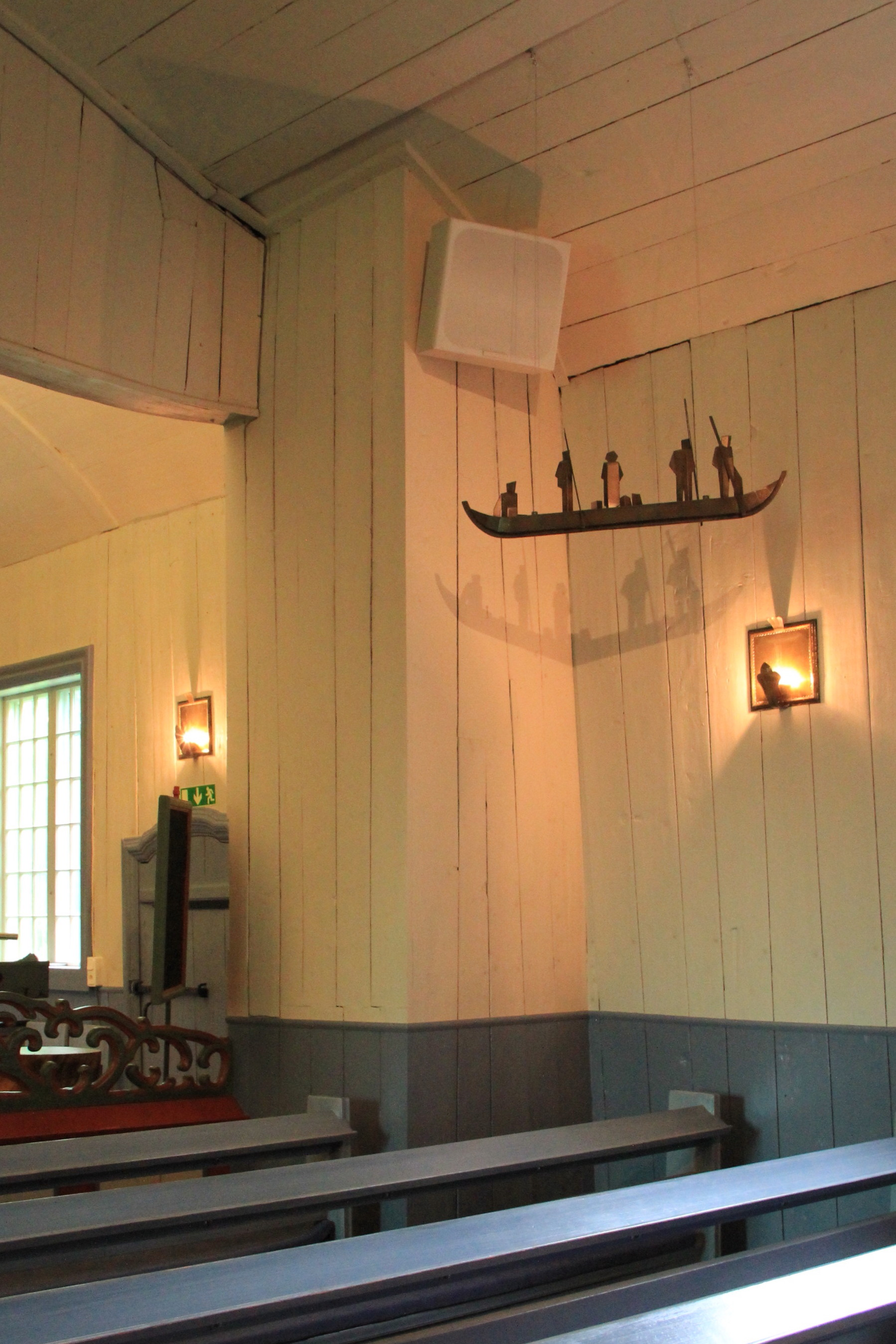 Jukkasjärvi church, Kiruna, Sweden. - Votive ship.